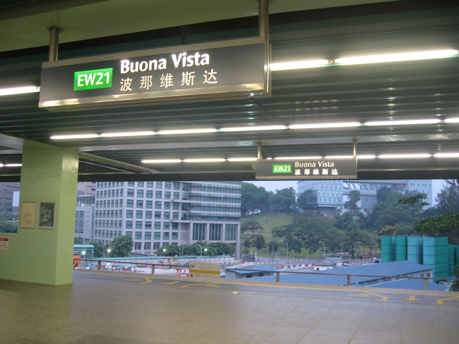 Buona Vista MRT Station.